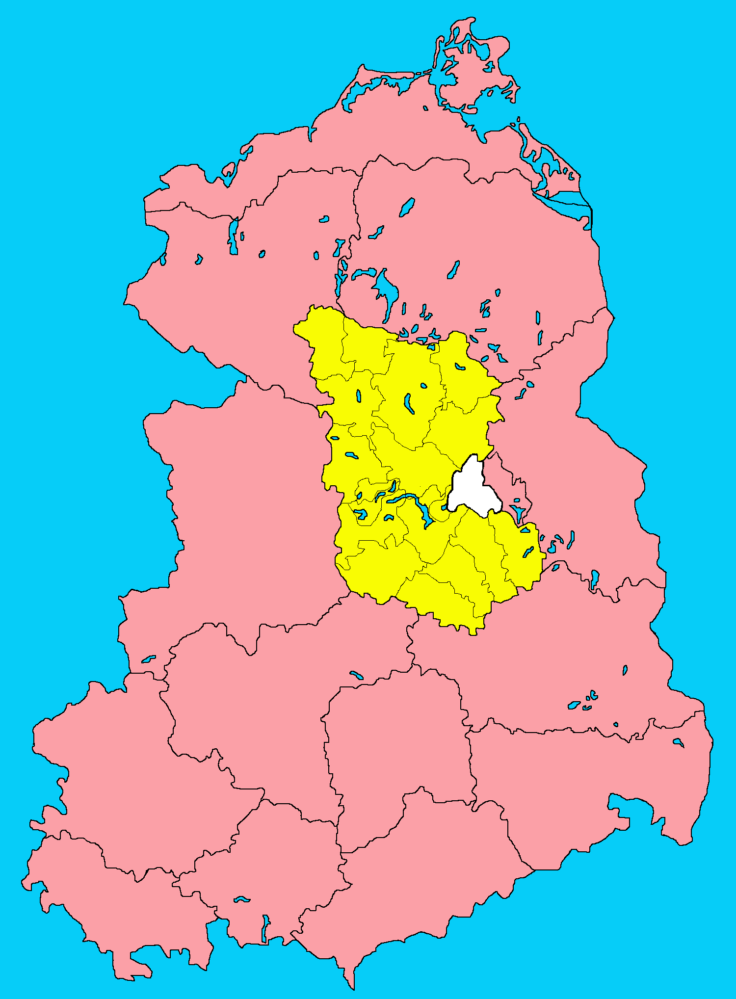 Map of the District of Potsdam in the German Democratic Republic (East Germany). The districts existed between 1952 and 1990. All of the district's area belongs now to the State of Brandenburg.